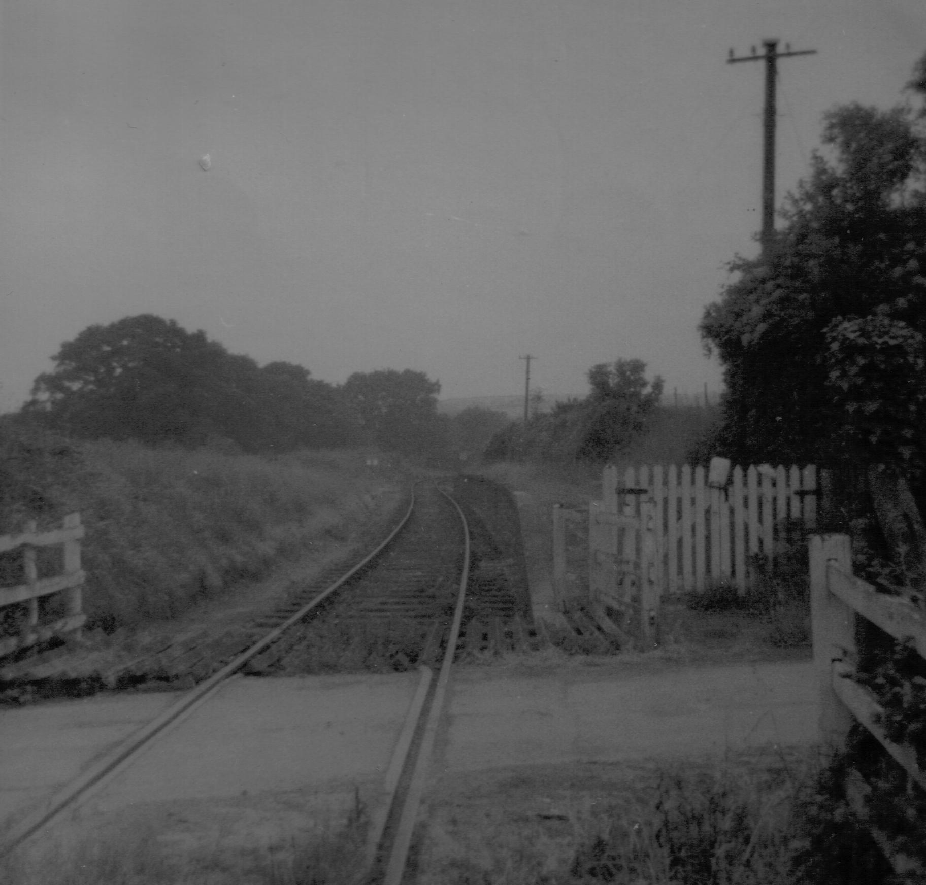 Dunsbear halt station, South Devon.